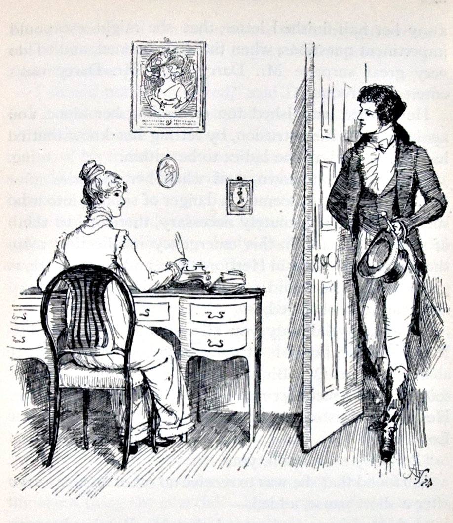 Image at the beginning of Chapter 32. Darcy and Elizabeth at Charlotte (nee Lucas) Collins' house. Austen, Jane. Pride and Prejudice. London: George Allen, 1894.